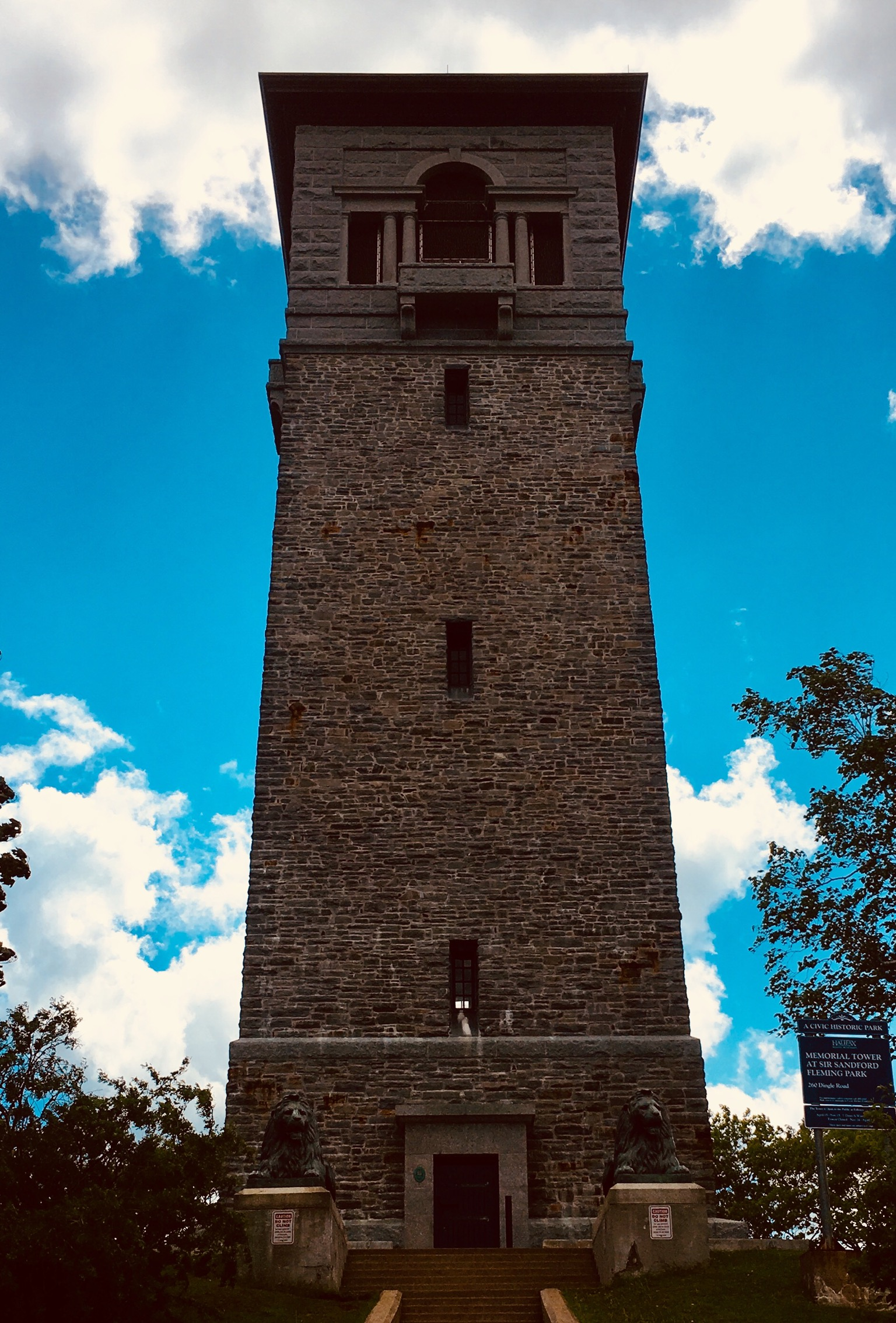 Dingle Tower, taken Spring 2018